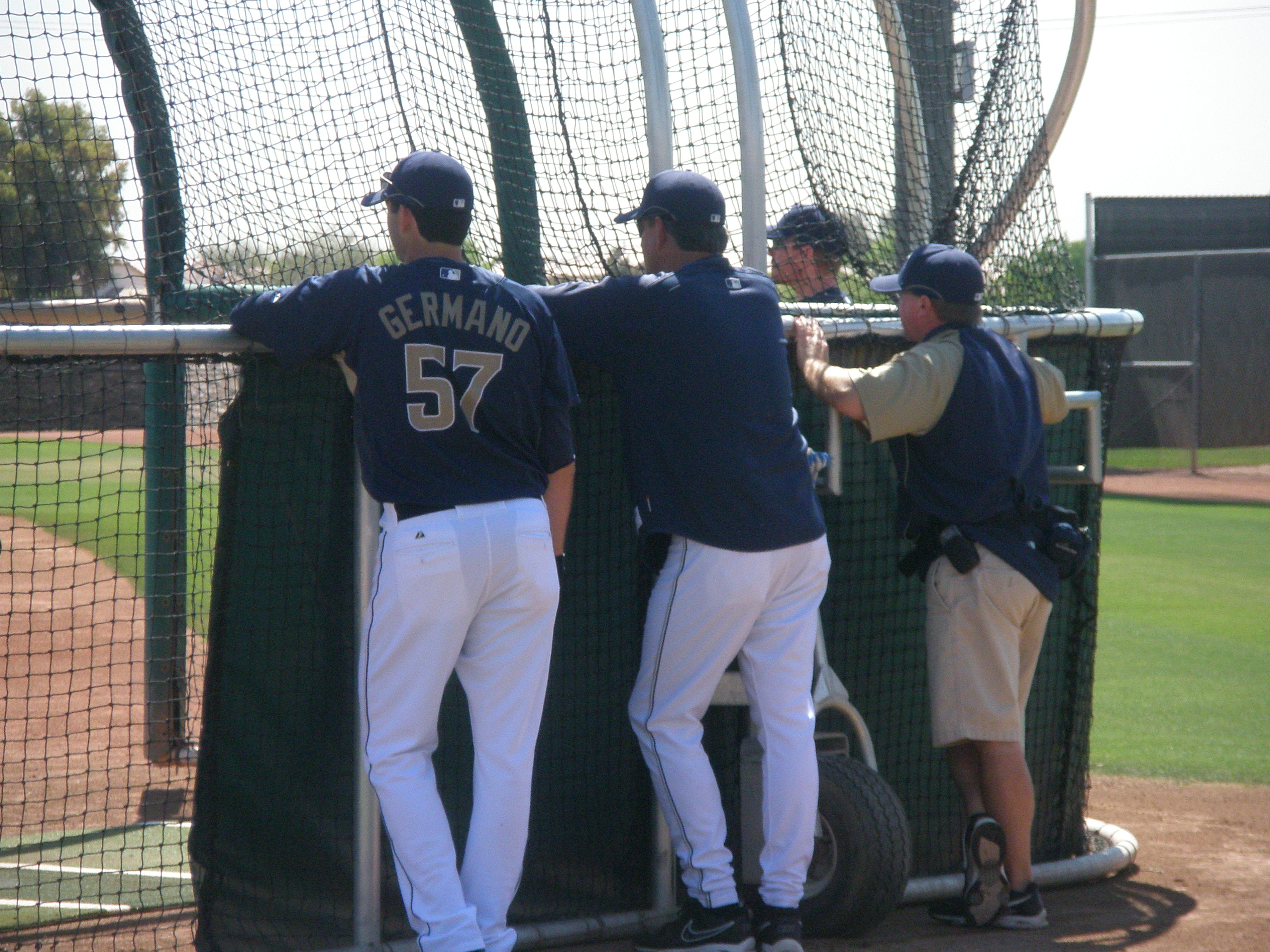 Justin Germano watching a pitcher's batting practice session in spring training, late March, 2008. To his right is Padres pitching coach Darren Balsley. This photo was taken by me. 22:22, 11 April 2008 . . RobHC . . 3,072×2,304 (3.83 MB)